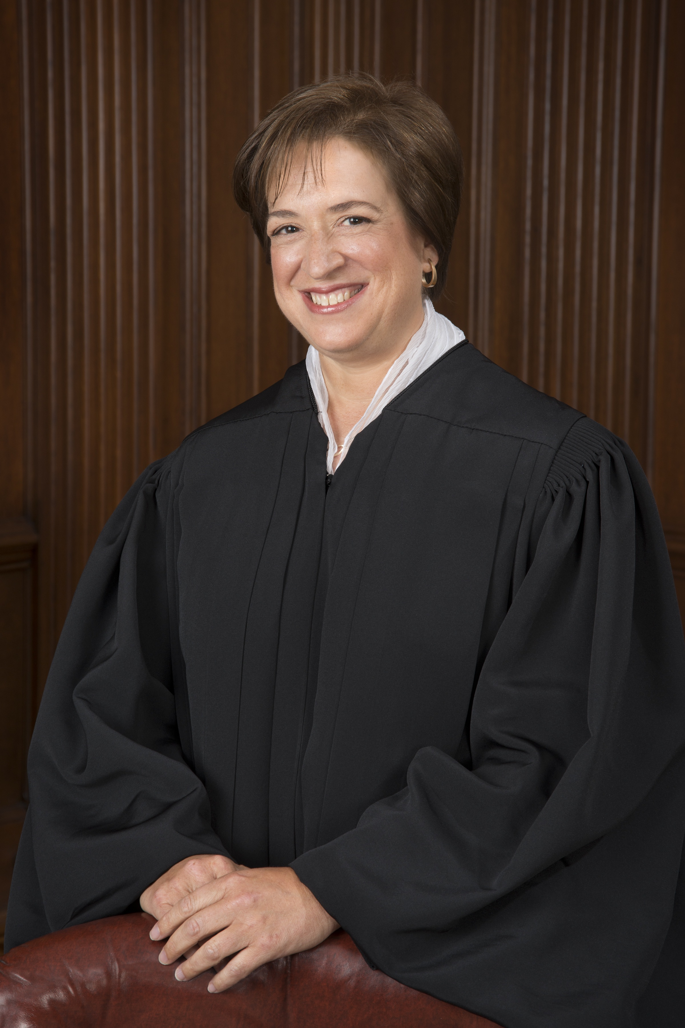 Elena Kagan, Associate Justice of the Supreme Court of the United States